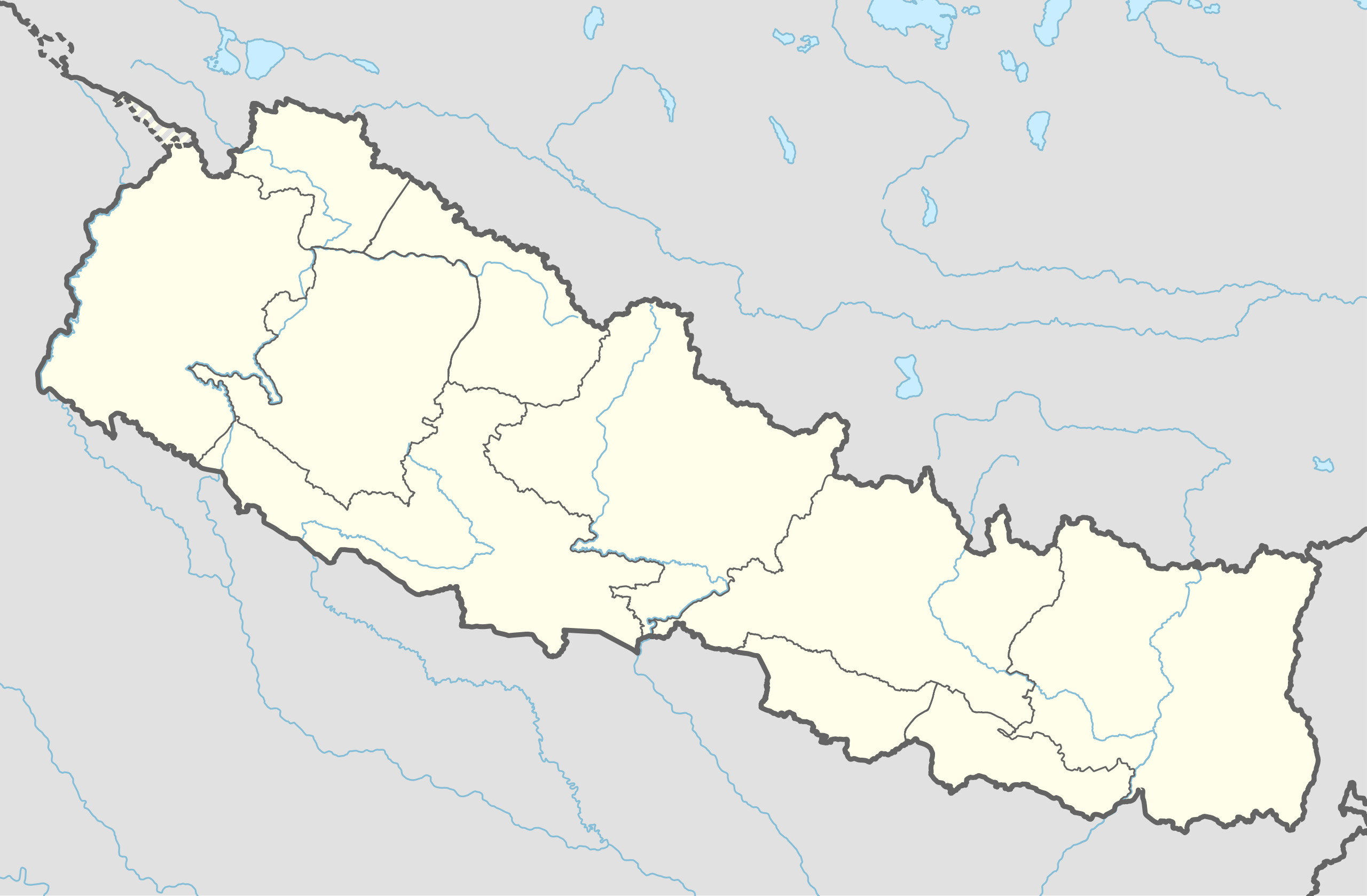 Map of Nepal from the CIA World Factbook